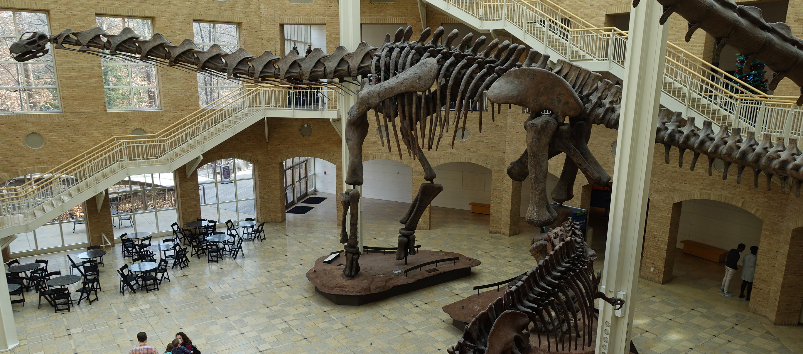 Giants of the Mesozoic